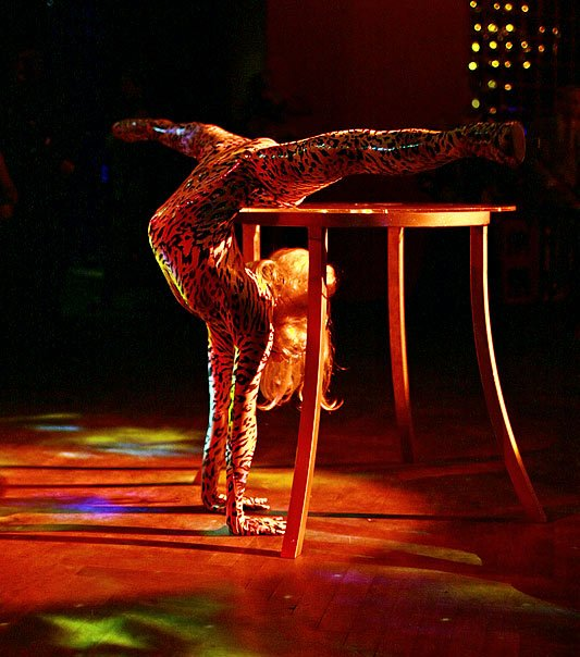 Contortionist Zlata on a performance at the Insomnia Berlin